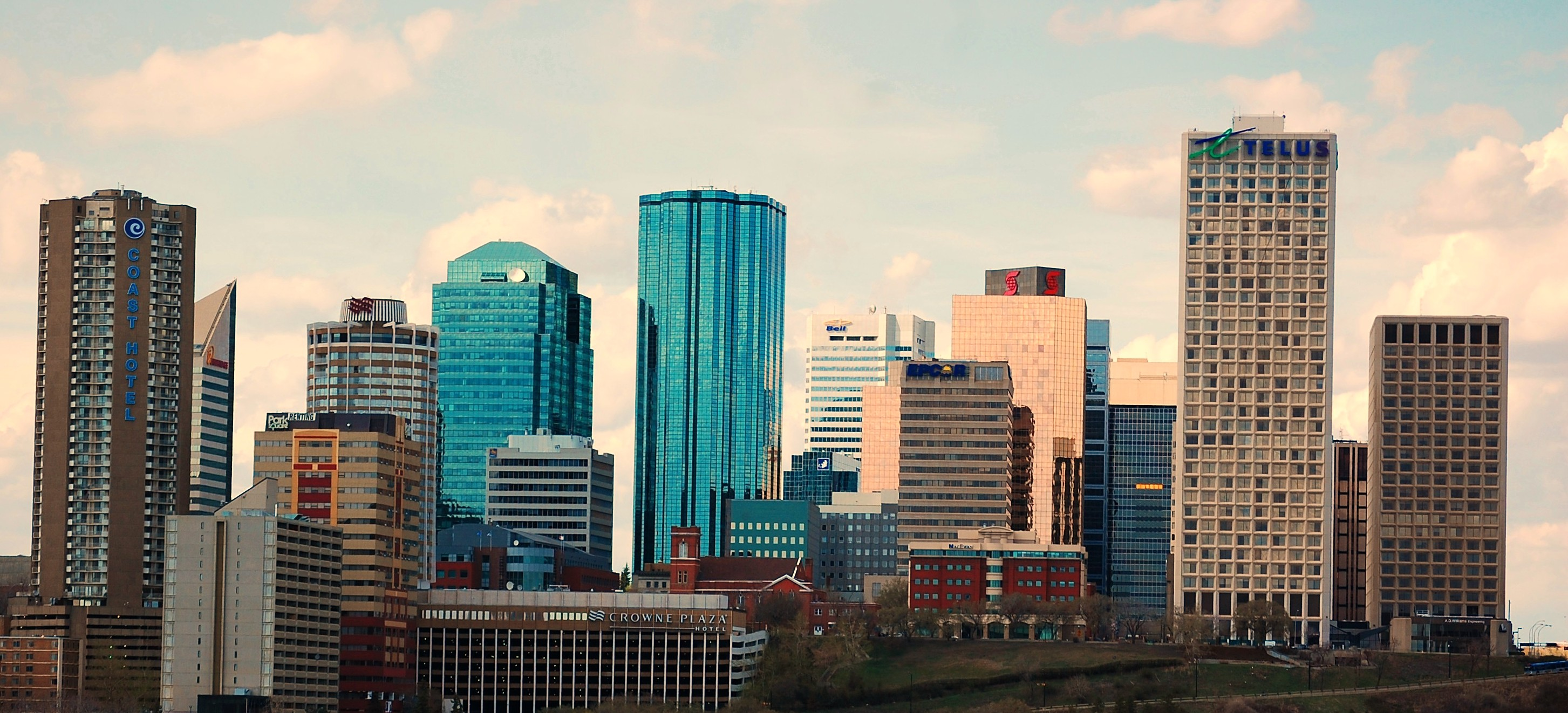 Edited version of original File:Edmonton Downtown Skyline daytime.jpg